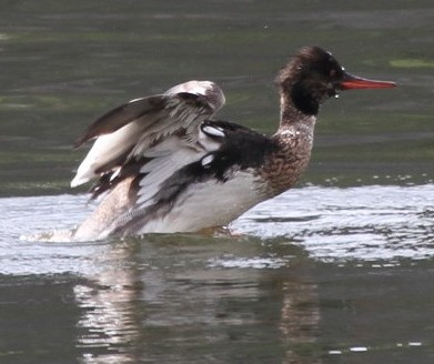 Mergus serrator (no: Siland) located in the Breiangen coastal basin of the middle Oslo Fjord (Oslofjorden), Hurum municipality, Buskerud county, Norway.